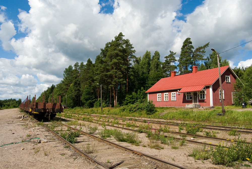 Vierumäki railway station and railyard in Heinola, Finland.